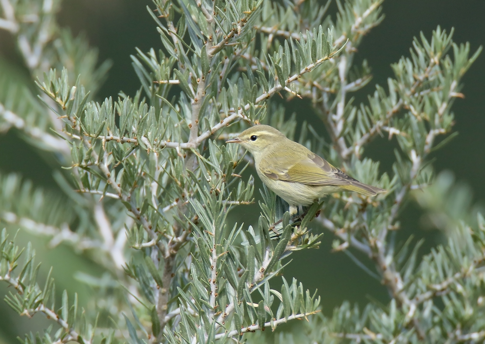 Greenish Warbler (Phylloscopus trochiloides) captured at Borit, Gojal, Gilgit-Baltistan, Pakistan with Canon EOS 7D Mark II